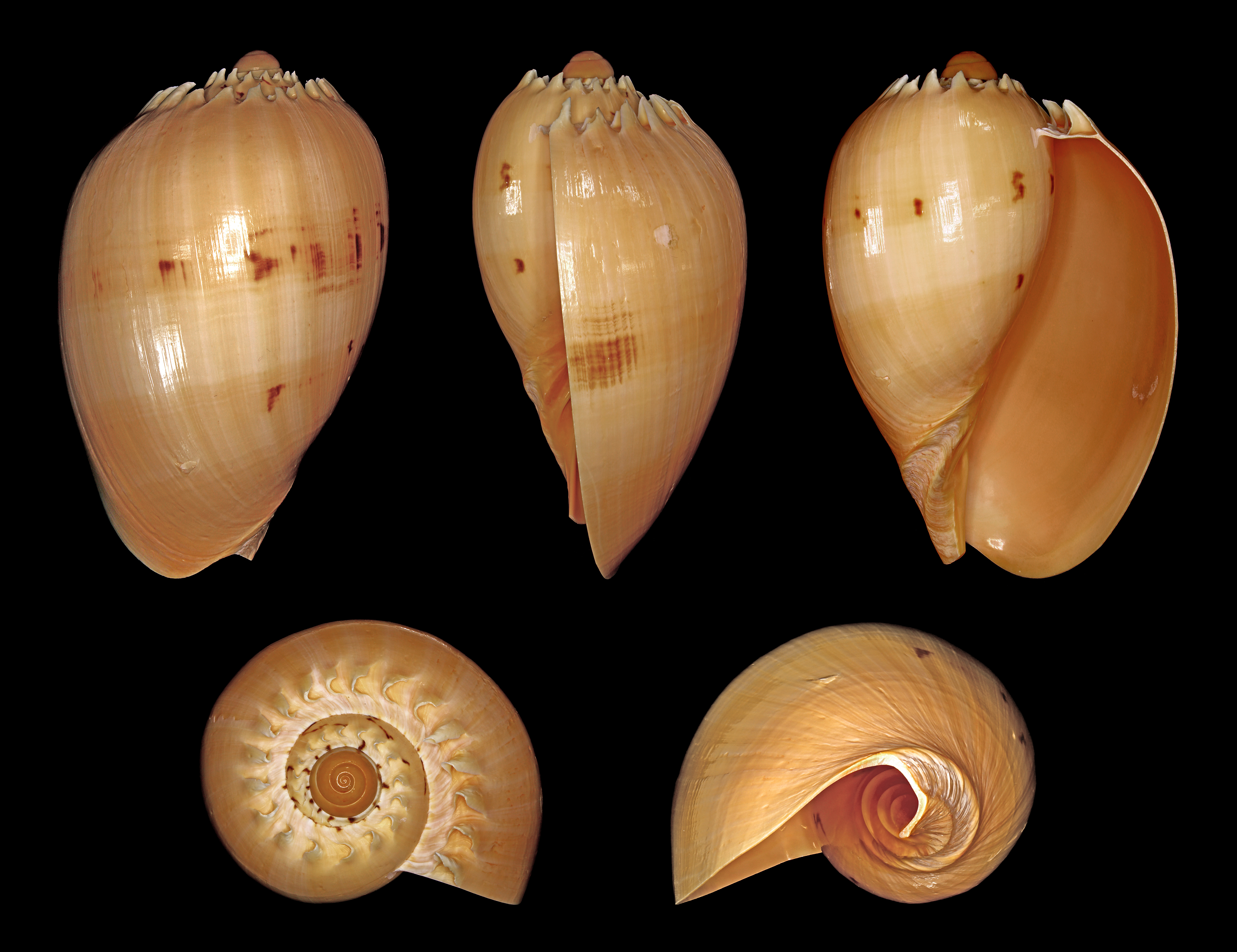 Length 14 cm; Originating from the West-Pacific; Shell of own collection, therefore not geocoded. Dorsal, lateral (right side), ventral, back, and front view.